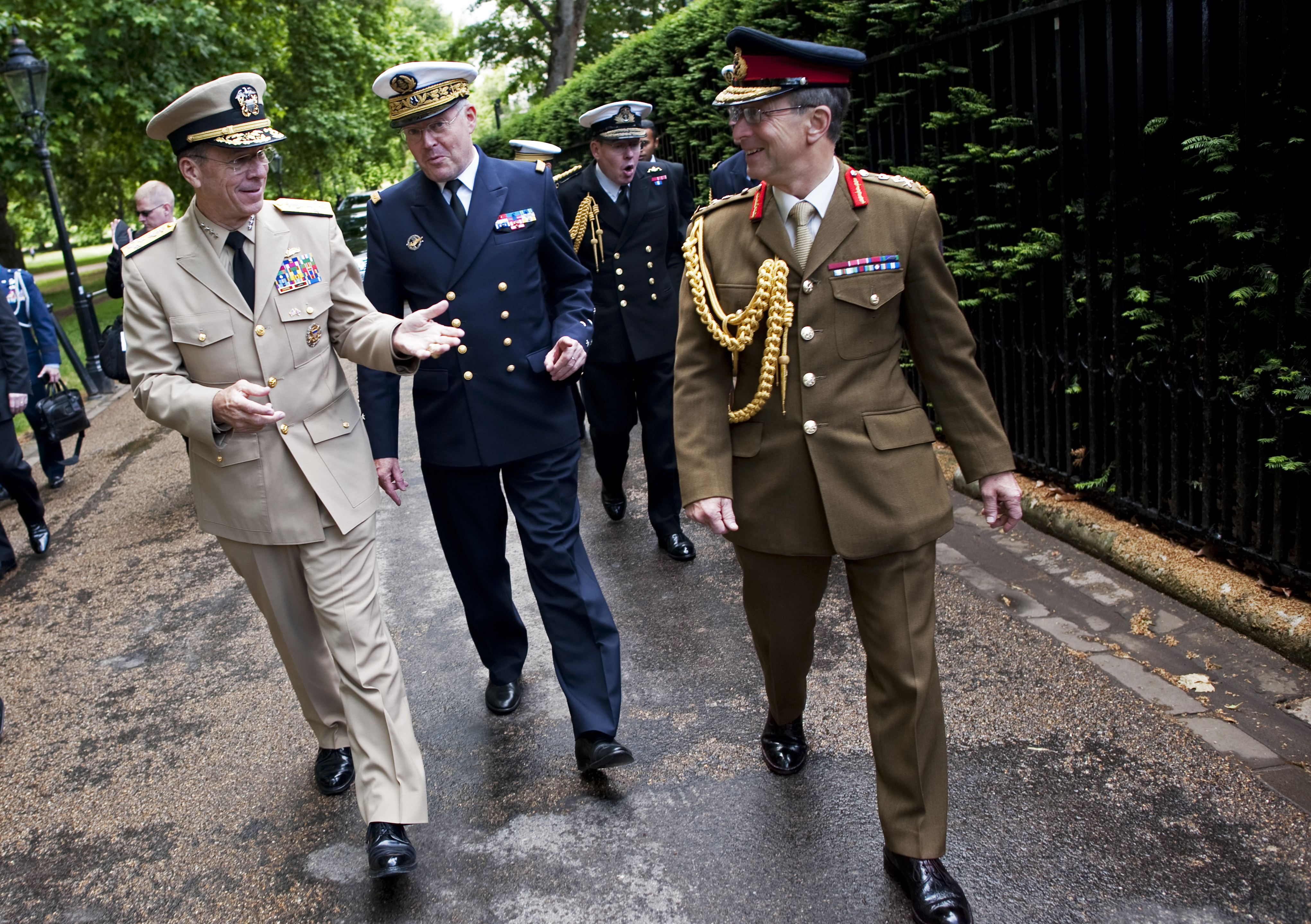 U.S. Navy Adm. Mike Mullen, chairman of the Joint Chiefs of Staff, left, French Navy Adm. Edouard Guillaud, chief of Defense Staff, center, and British Gen. Sir David Richards, chief of Defense Staff, right, leave Lancaster House in London, June 10, 2011.